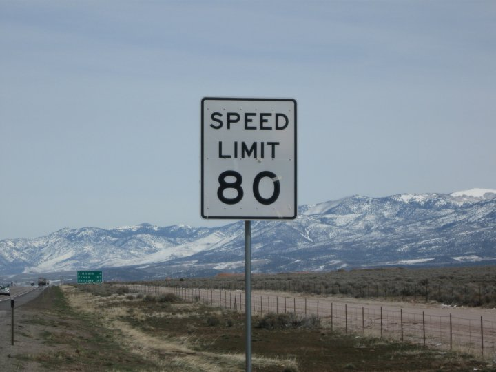 Speed Limit 80MPH on Interstate Highway 15